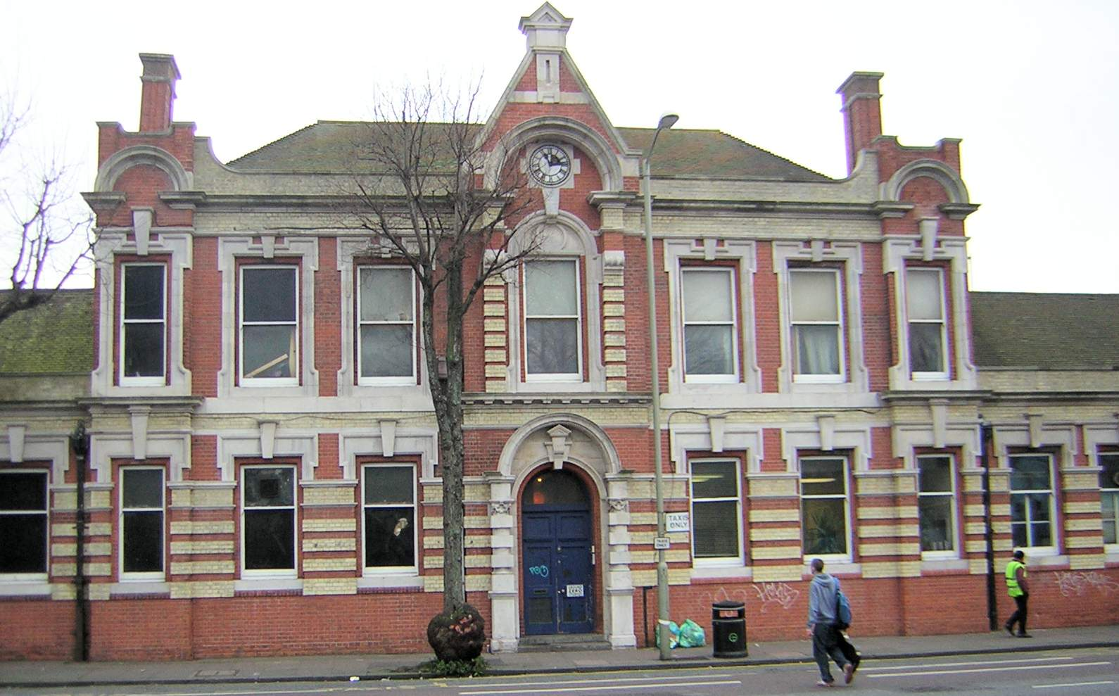 former Brighton Tramways depot (now Ground Zero studios), Lewes Road 50°50′19.66″N 0°07′23.65″W / 50.8387944°N 0.1232361°W